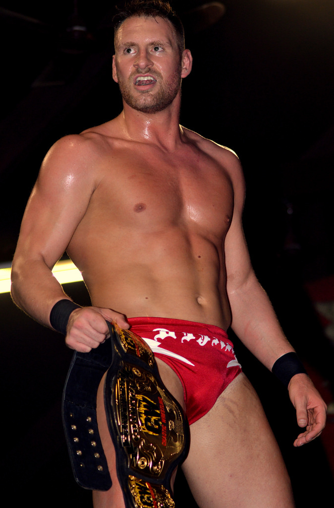 New England based professional wrestler, competing for numerous promotions including Ring of Honor, Chaotic Wrestling, XWA, and Beyond Wrestling